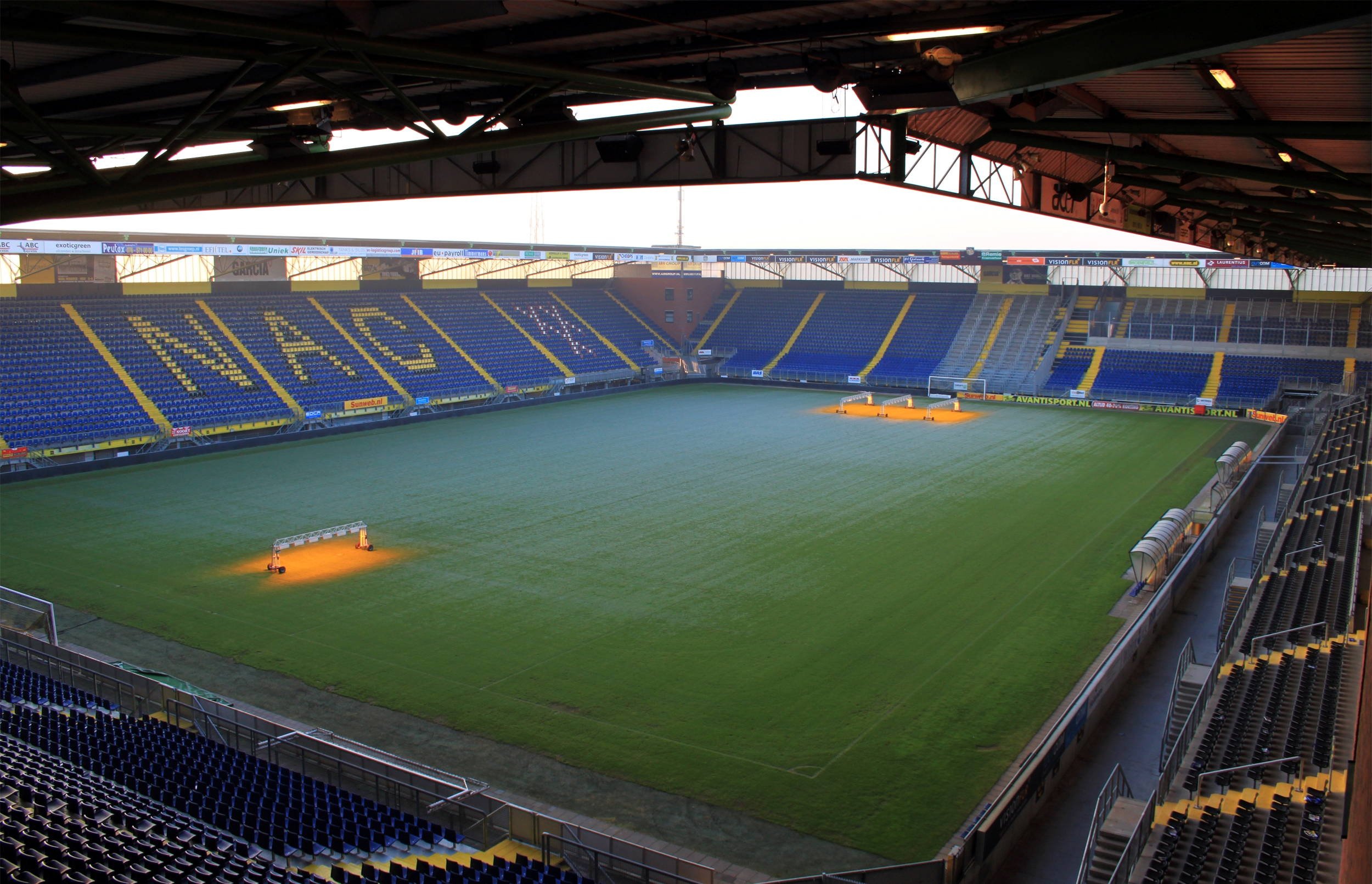 NAC Breda's Rat Verlegh stadium in Breda, January 10, 2011